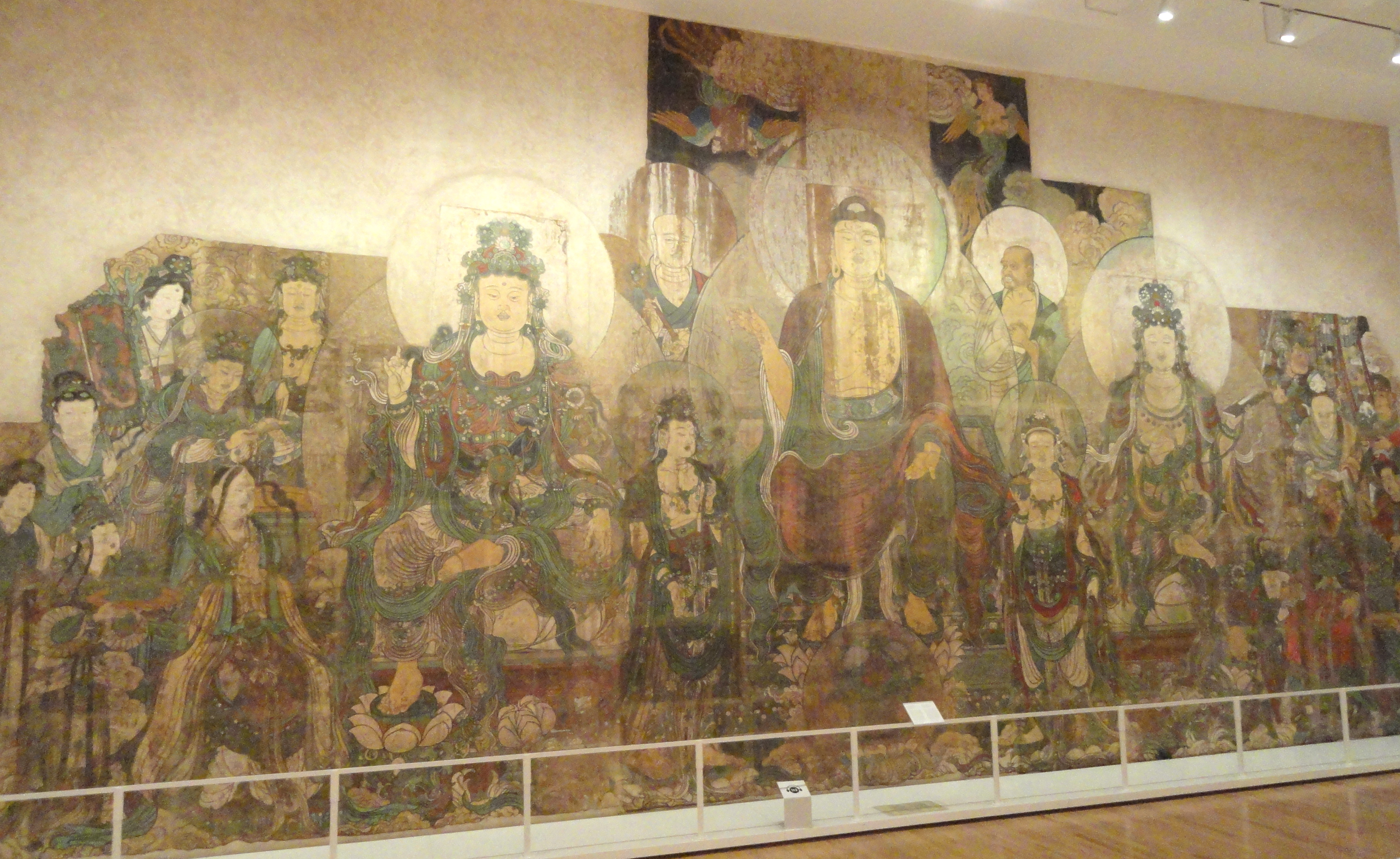 Exhibit in the Royal Ontario Museum, Toronto, Ontario, Canada. This exhibit is old enough so that it is in the public domain, and photography was permitted in the museum. I took this photograph and release it into the public domain.